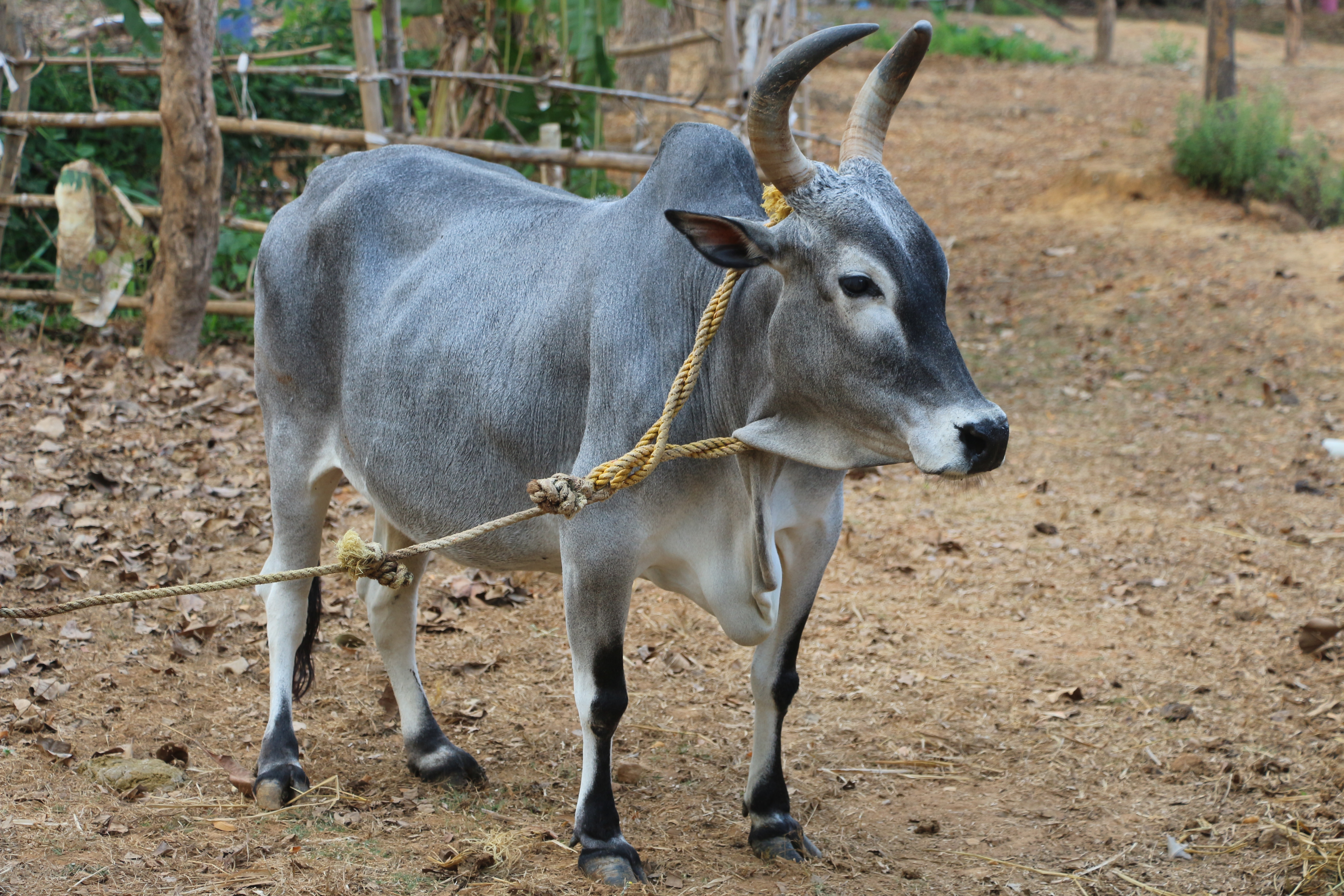 Indian cow breed Kangayam ಕನ್ನಡ: ಭಾರತೀಯ ಗೋತಳಿ ಕಂಗಾಯಂ